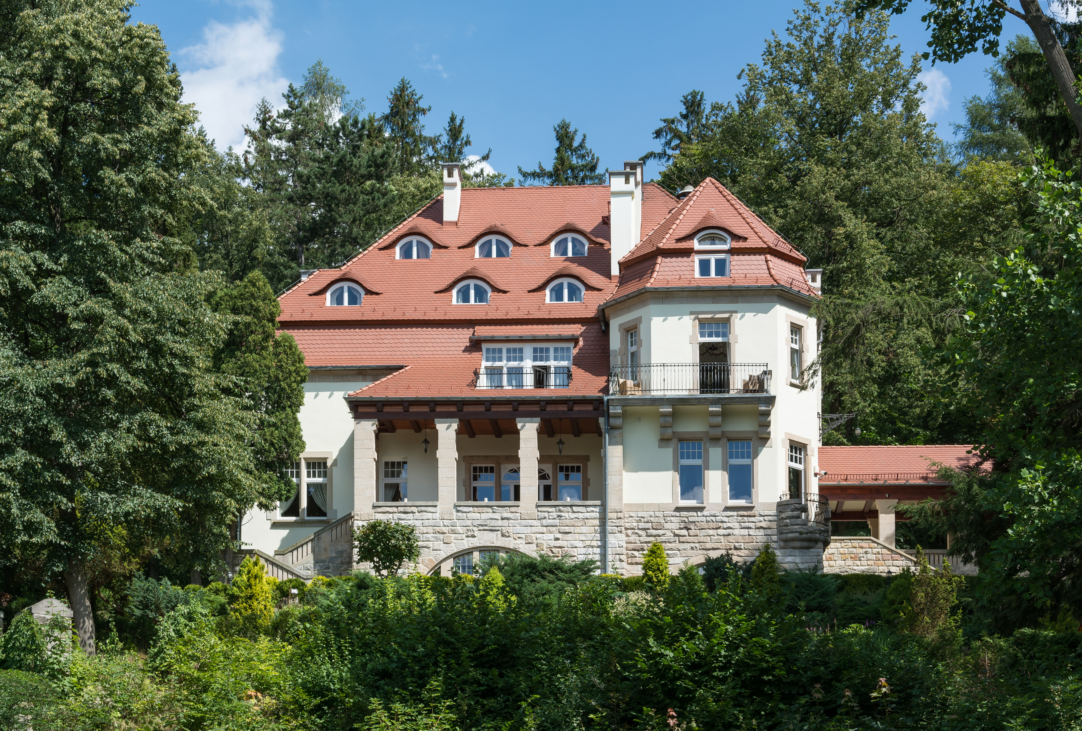 Guesthouse "Villa Barbara" in Lądek-Zdrój Ta fotografia przedstawia zabytek wpisany do rejestru zabytków pod numerem ID 592822